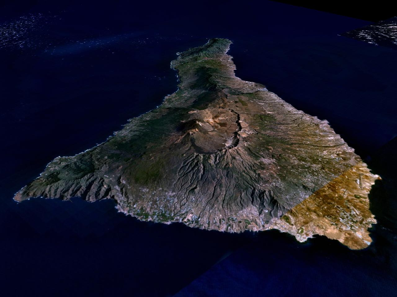 Teneriffa from the west side. One sees Teide (3,700 meters) and the Caldera (2,000 m). To the right hand the new airport. On the left side one sees that there is more humidity and therefore vegetation at the north side of the island.